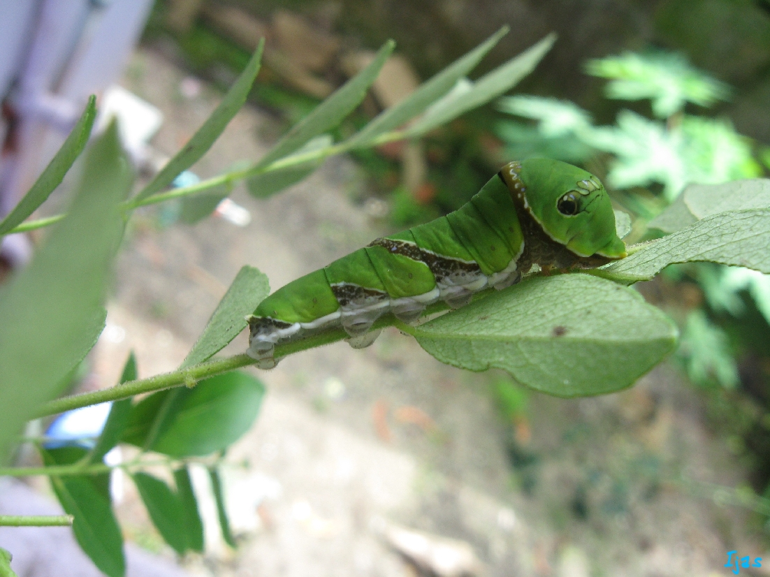 Common mormon